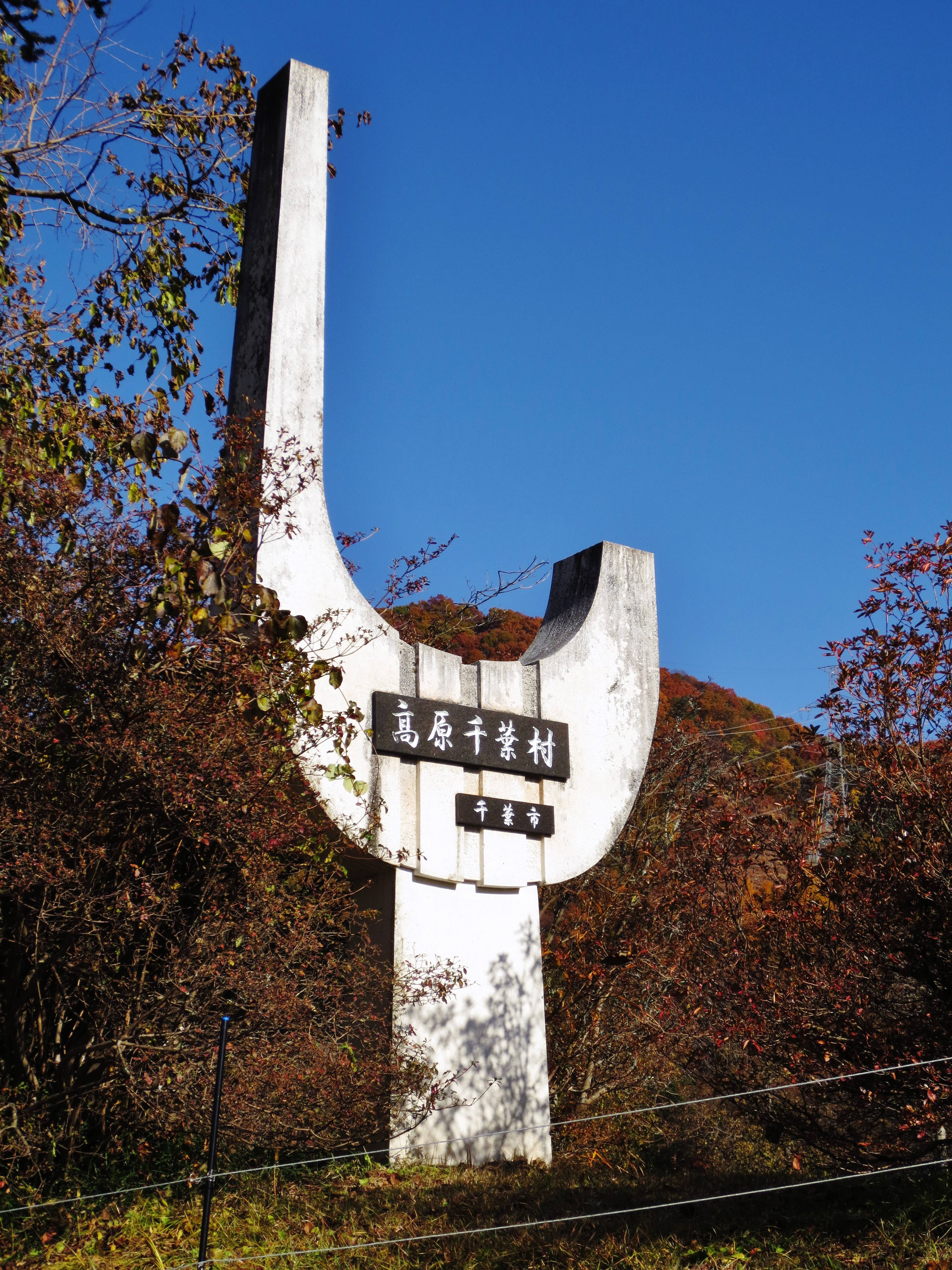 Kōgen Chibamura.